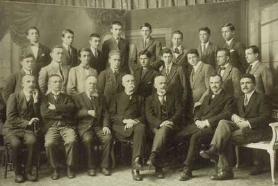 Pupils and teachers from first Sofia men school. Among teachers are Blagoy Dimitrov, Stanimir Stanimirov and Ivan Dorev.